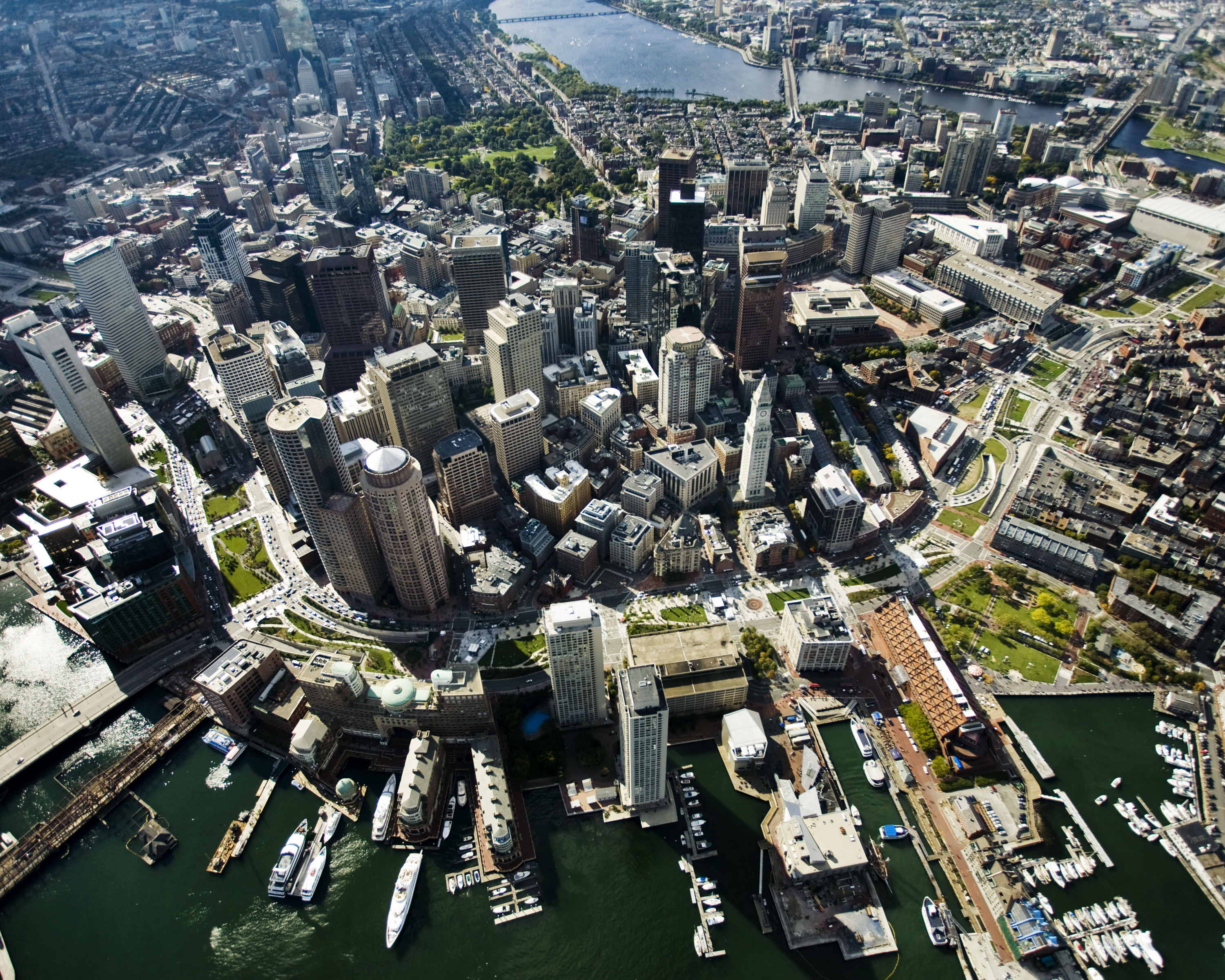 aerial photo of greenway